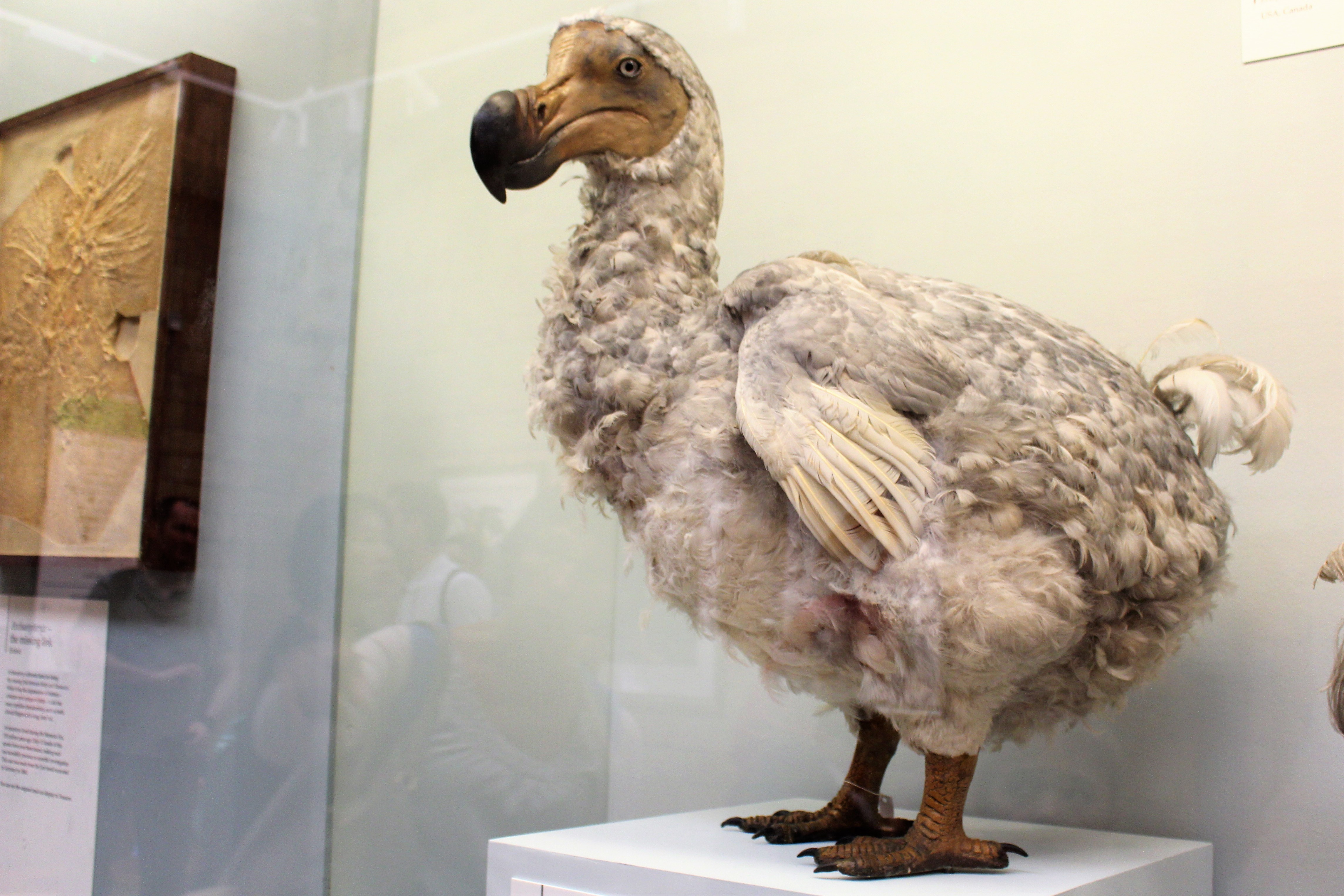 A Dodo (Raphus cucullatus) reconstructions at the Natural History Museum in London, England.